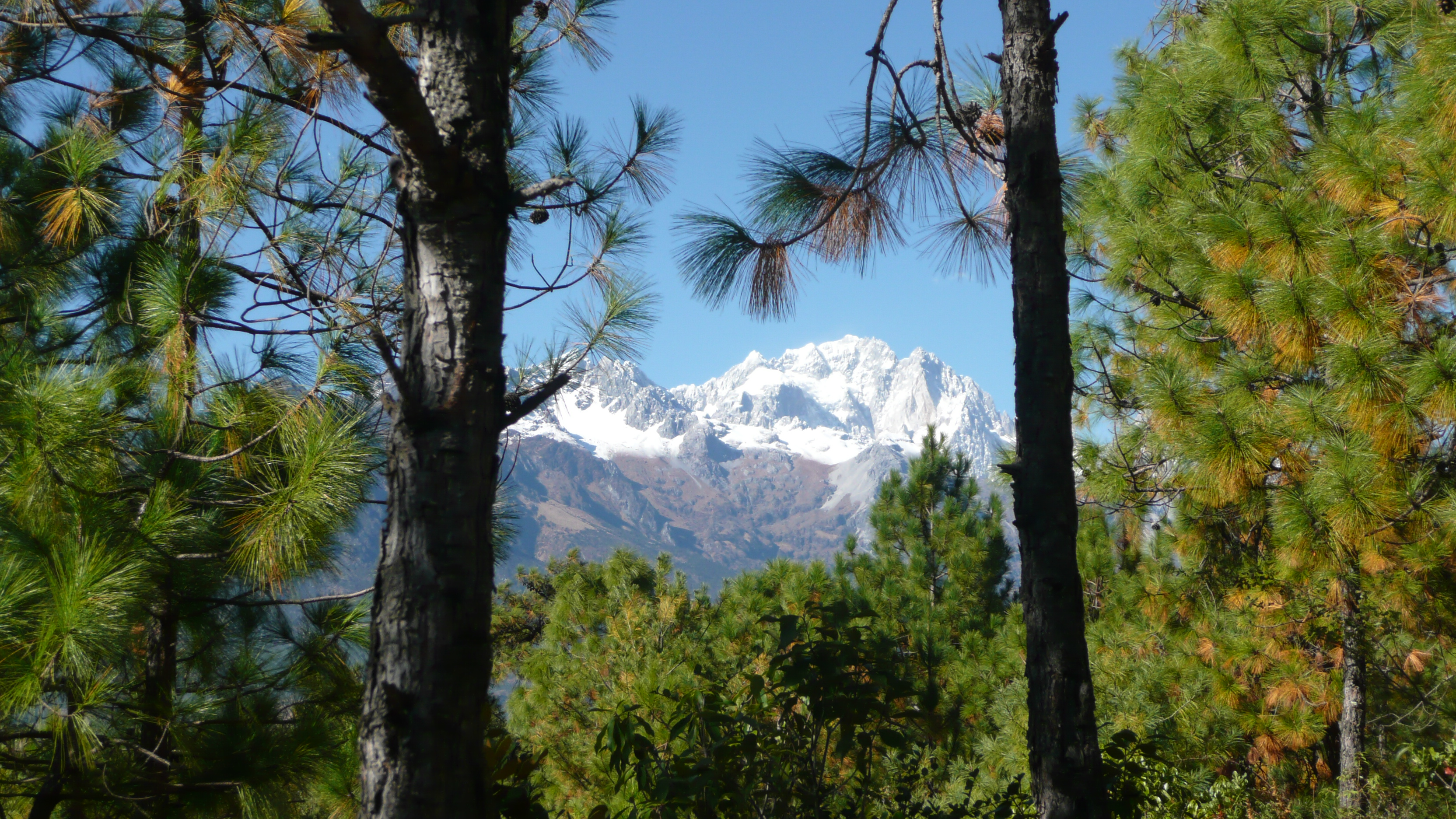 Yulong Xueshan - Jade Dragon Snow Mountain near Lijiang in Yunnan